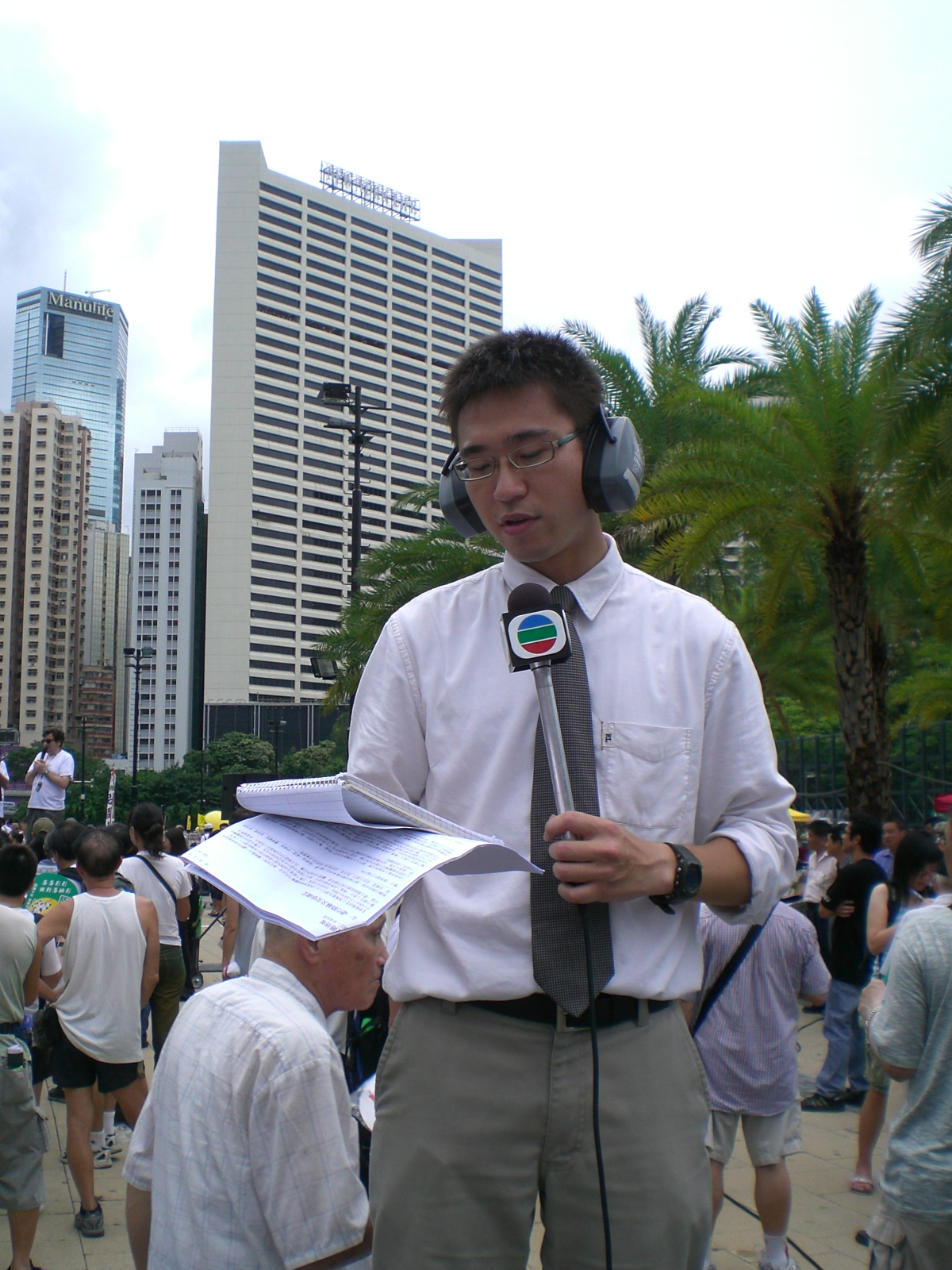 Television Broadcasts Limited reporter.